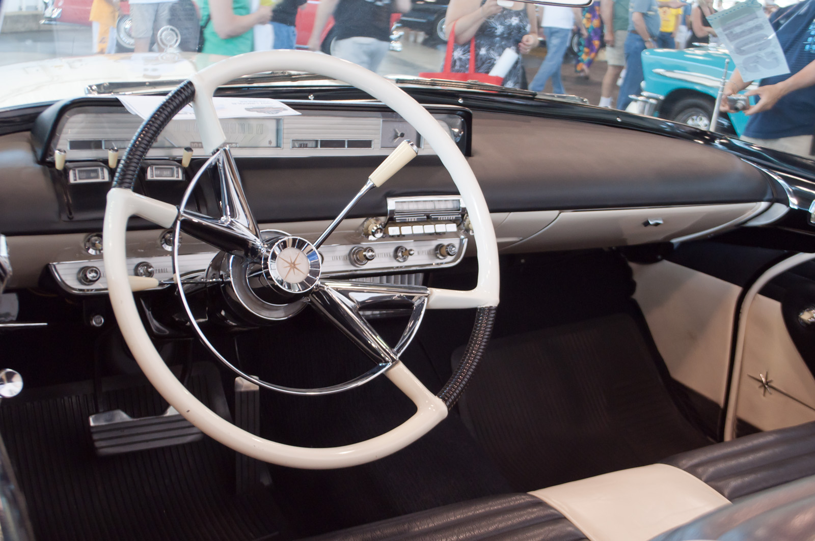 Offered for sale at Barrett-Jackson Auto Auction, Costa Mesa, California. This is an extremely nice car - it has a 300-hp 368 CID V8 engine, a Turbo-Matic automatic transmission that was exclusive to Lincoln, and distinctive cantilevered tail fins. Only 3,676 were built for the year 1957. The proceeds from the sale of this car are to go to Loma Linda University Children's Hospital.